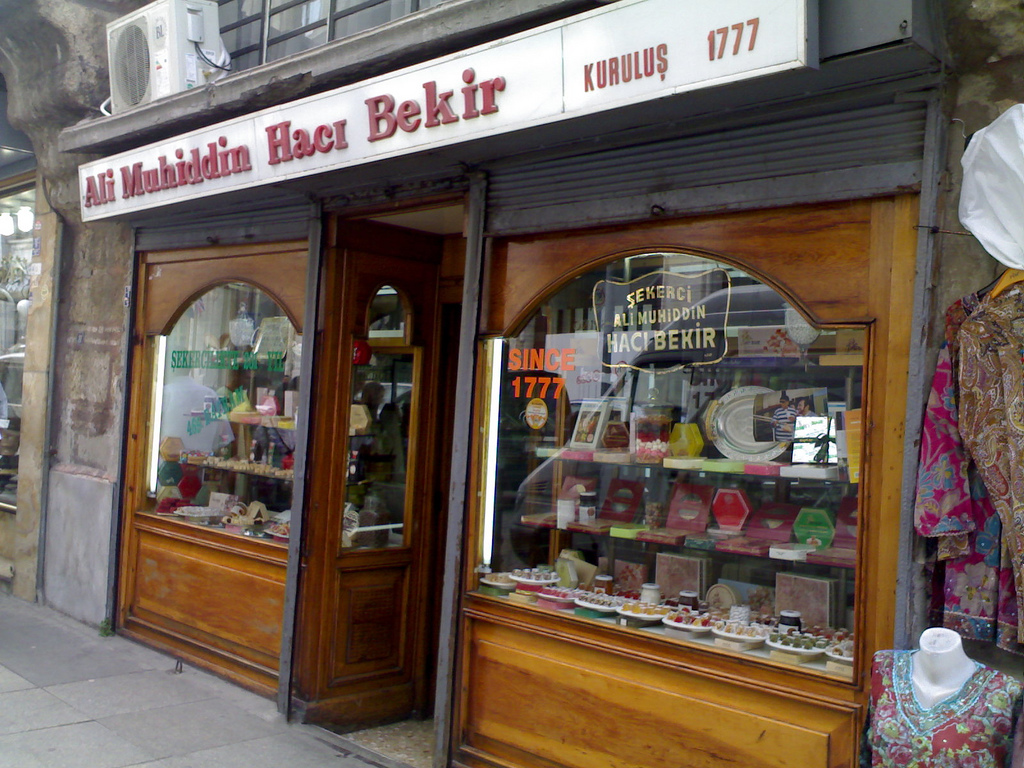 "Hacı Bekir", a famous confectionery shop in Istanbul.